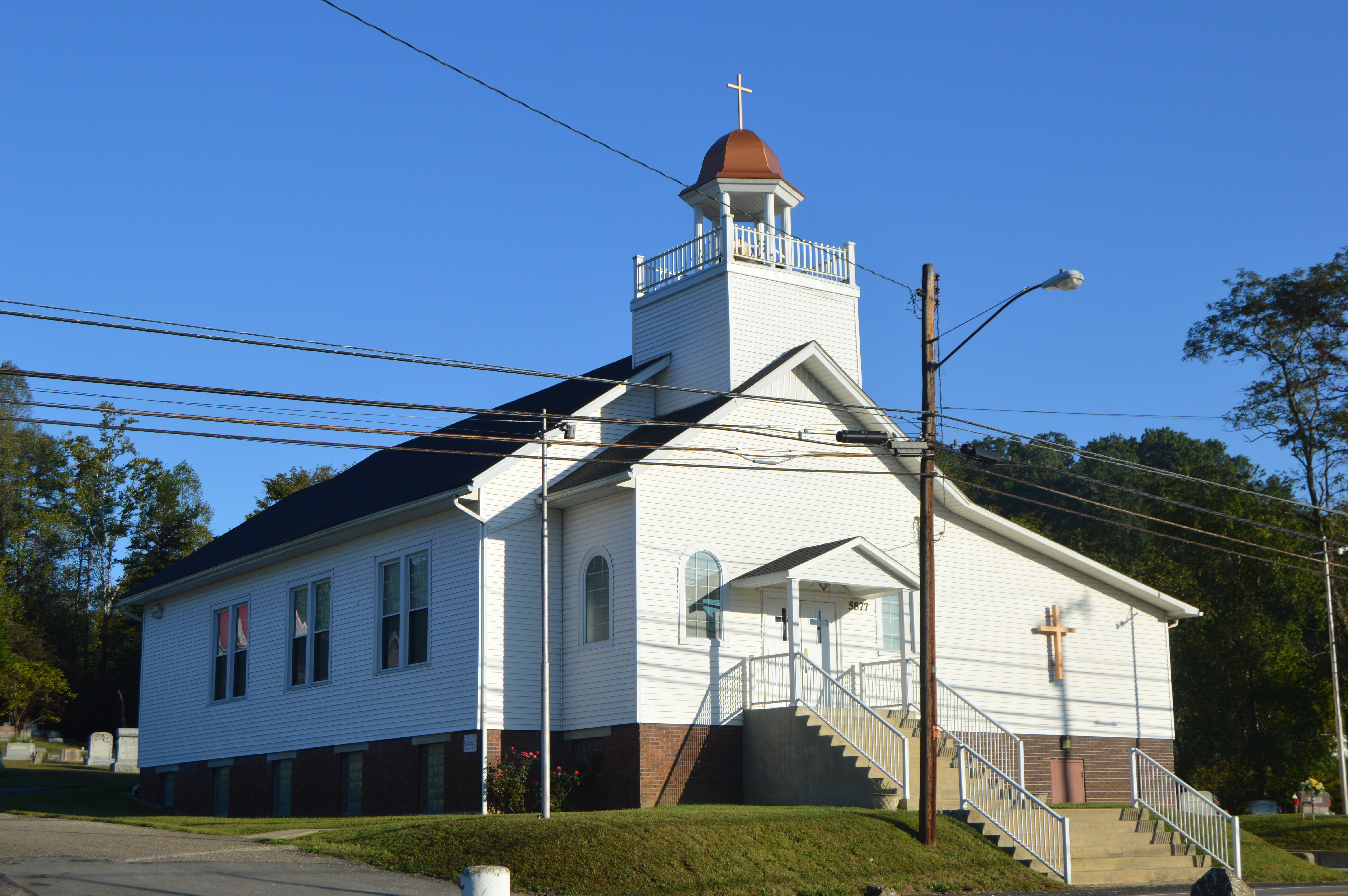 Front and southwestern side of Christ's Brethren Church, located at 5877 State Route 139 in Rubyville, Ohio, United States. It was built in 1926.